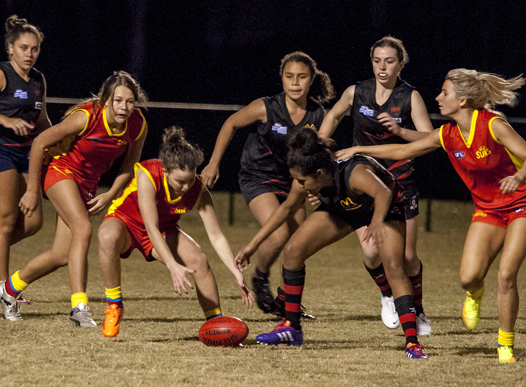 Women's Australian rules football match between Bond University and Burleigh Sat 19 Jul 2014